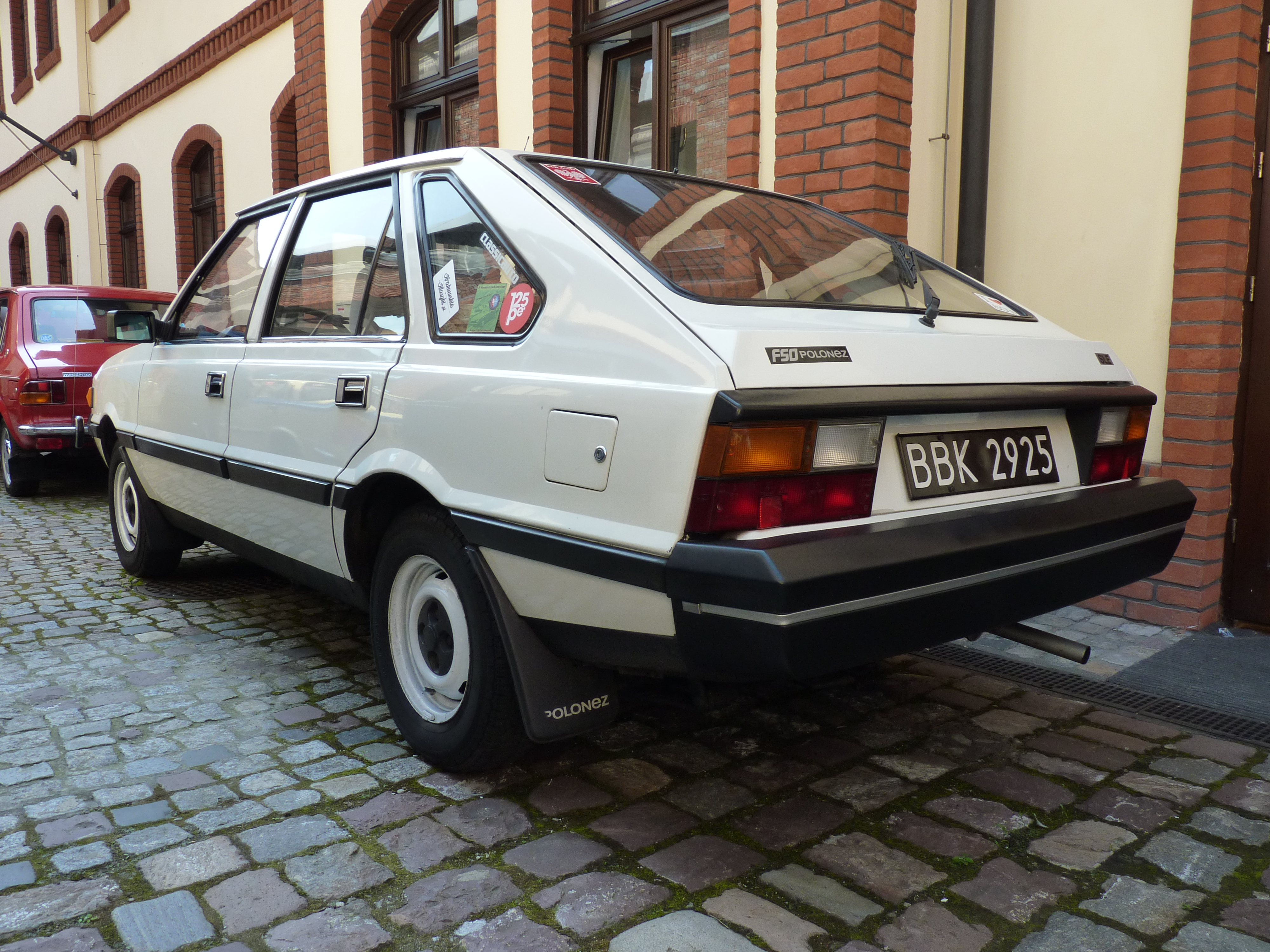 Classic Moto Show 2014 in Kraków.